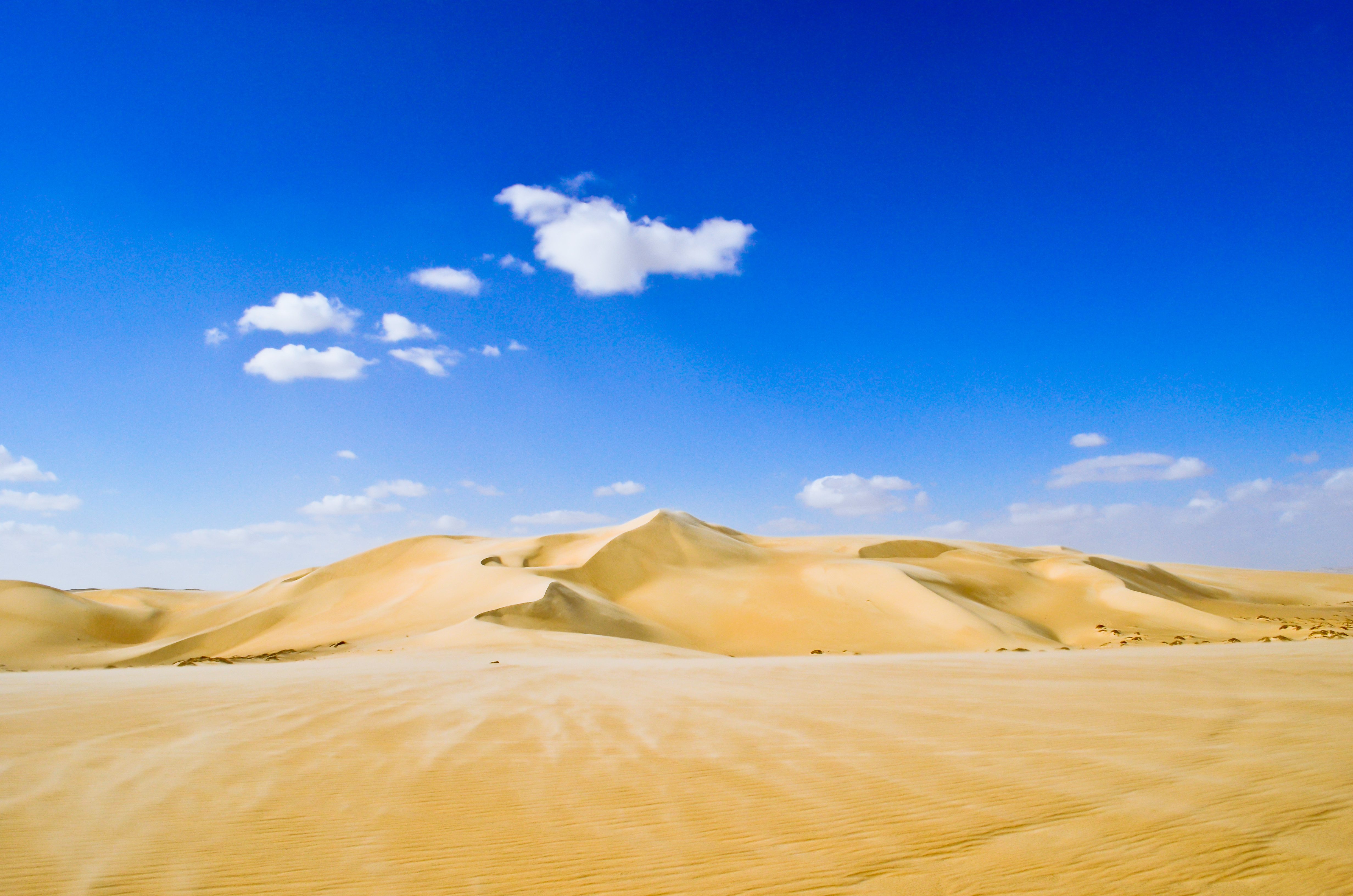 بحر الرمال بالصحراء الغربية - مصـر